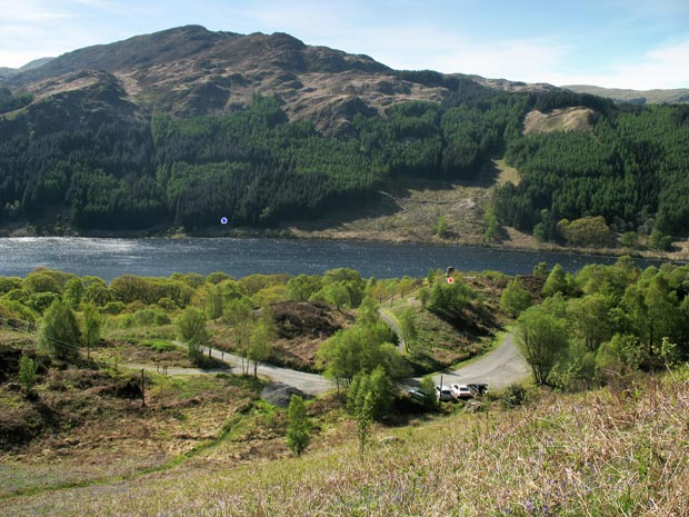 View of Bruce's Stone area with Loch Trool, Muldonnoch and 1307 Battle Location from Eschoncan